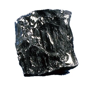 Anthracite coal